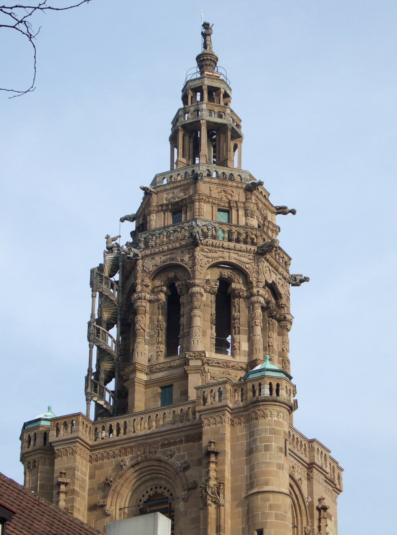 Tower Of The Church Kilianskirche Of Heilbronn - Germany